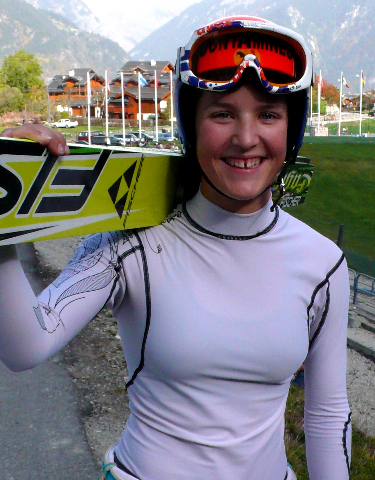 Coline Mattel